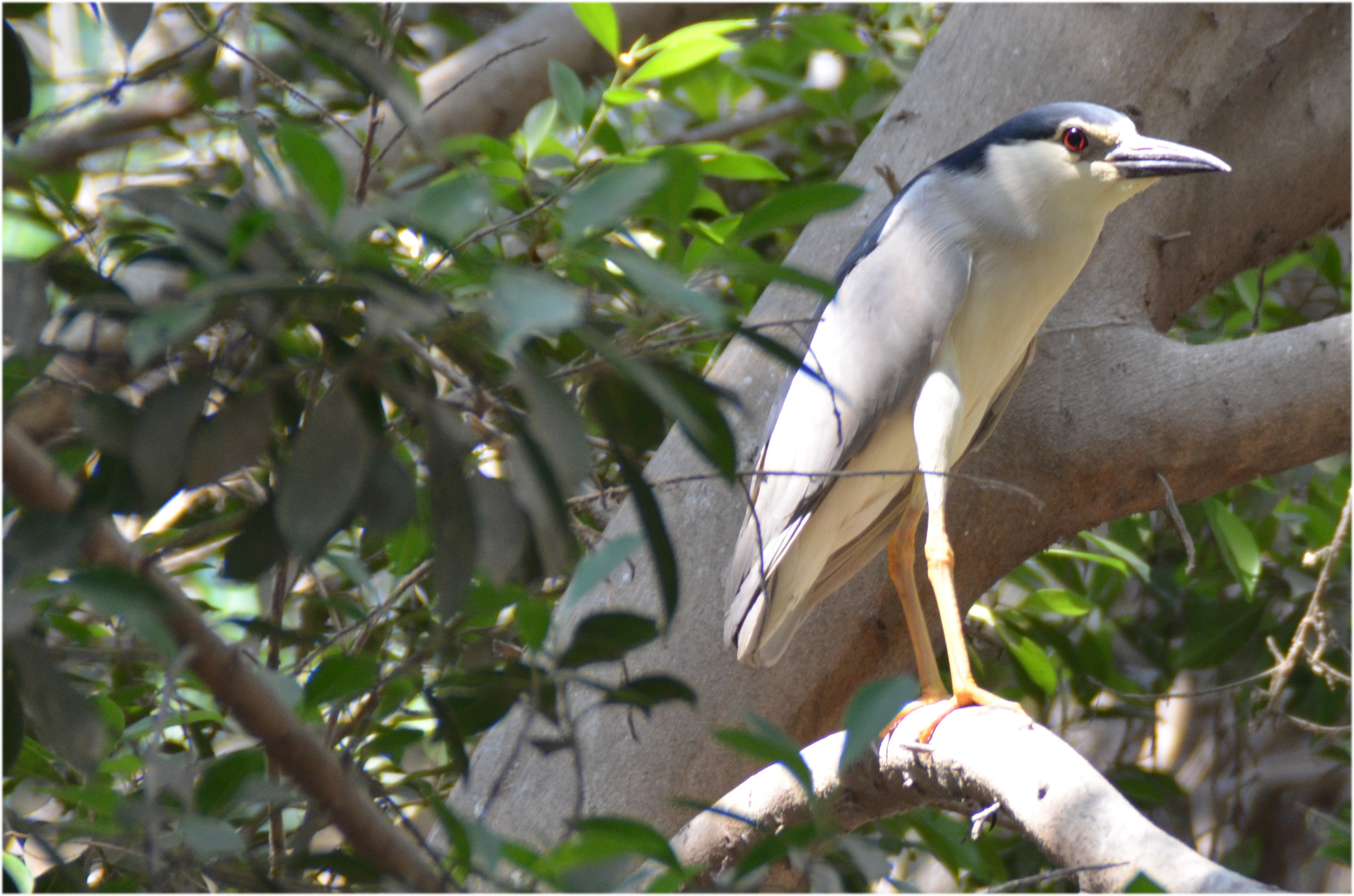 Night Heron at Giza zoo